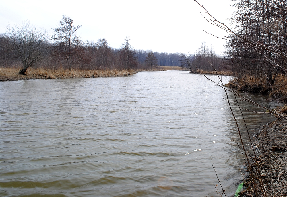 Woods Creek, looking south from Buckhorn Island State Park - Grand Island, New York.